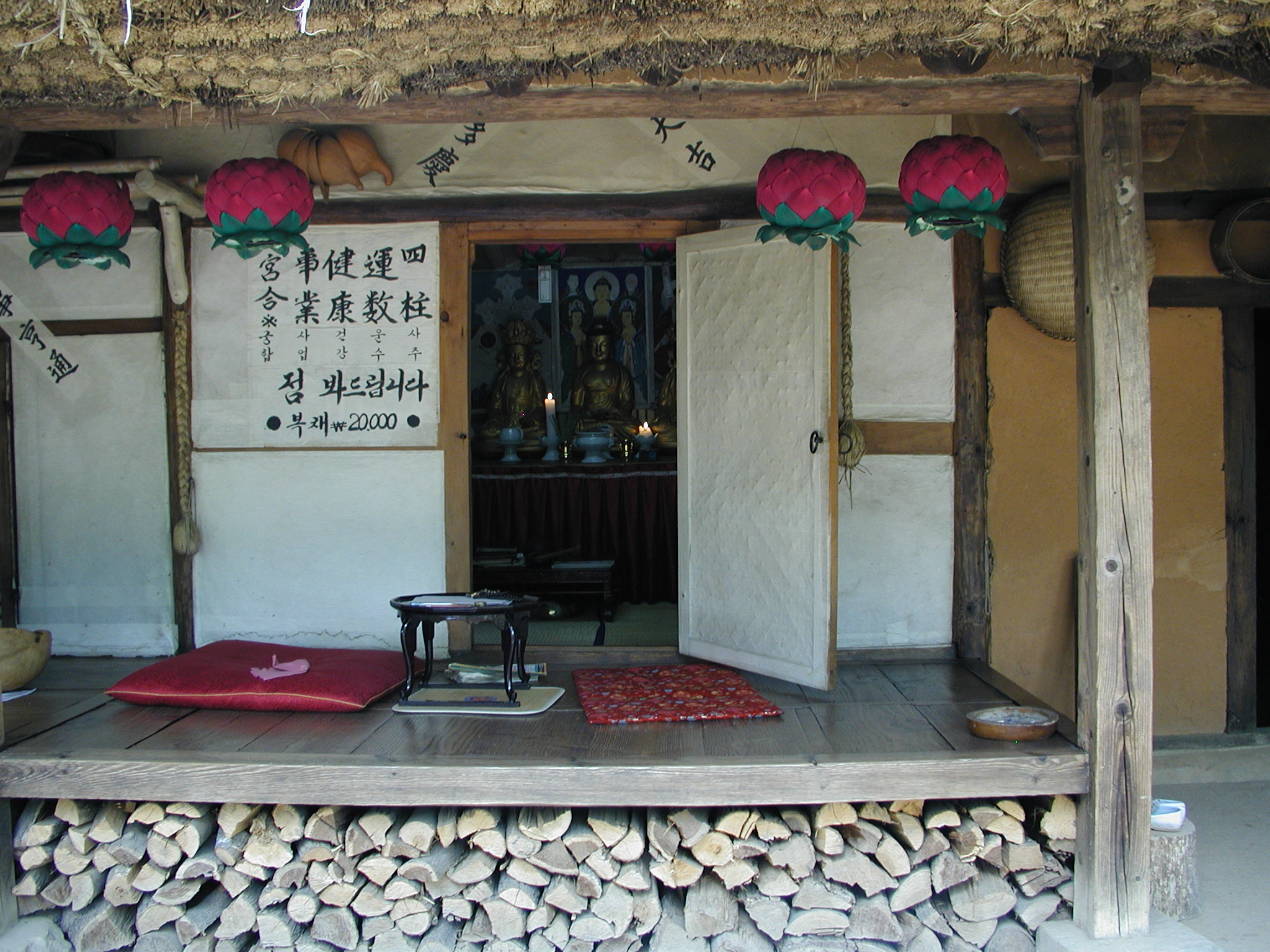 Milsokchon, located in Gyeonggi Province, South Korea